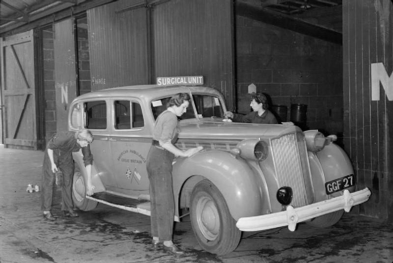 Flying Bomb- V1 Bomb Damage in London, England, UK, 1944 Women of the American Ambulance Great Britain wash an ambulance car of the surgical unit to pass the time between call-outs at their depot, somewhere in London.